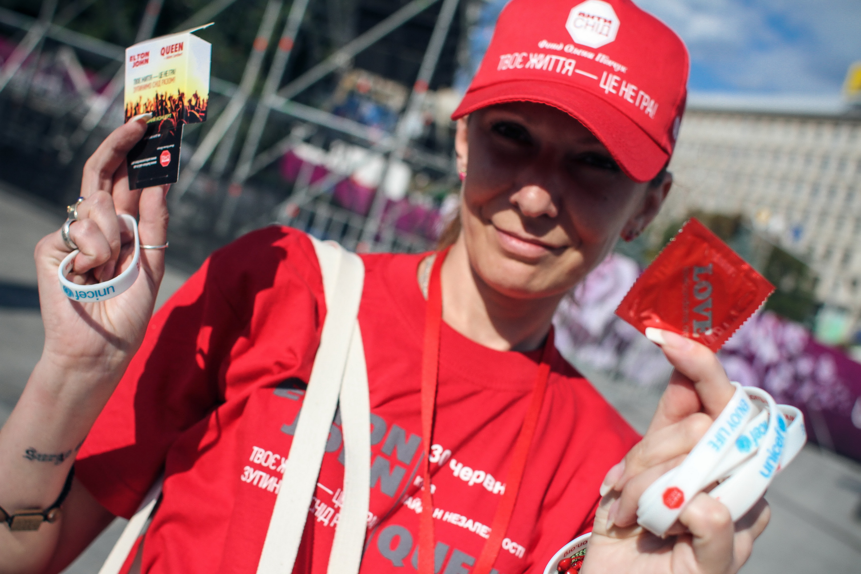 Kyiv, June 30, 2012 – Today UNICEF along with Elena Pinchuk ANTIAIDS Foundation have addressed the Ukrainian youth calling for them to "Enjoy life. Stay safe" in the framework of a charity concert dedicated to the fight against AIDS, featuring Elton John and Queen with Adam Lambert. 25 000 concert attendees in Kyiv wore bracelets as a sign of support for a safe lifestyle and the fight against AIDS.